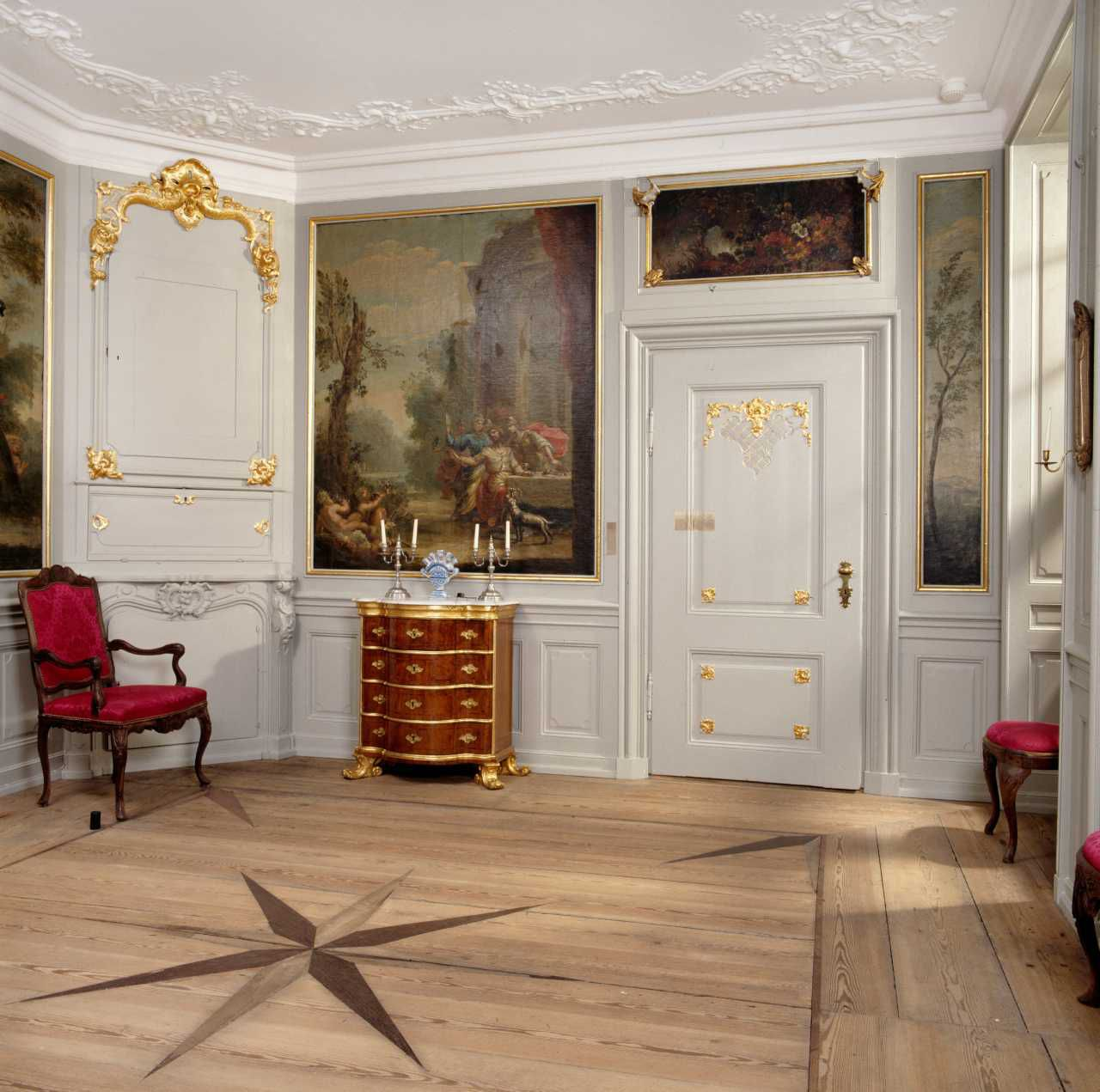 The reconstructed Magstræde apartment in Nationalmuseet in Copenhagen, Denmark